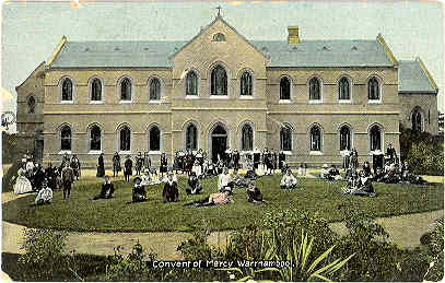 Photo from c.1899 of St Ann's Chapel at rear of Convent of Mercy, Warrnambool